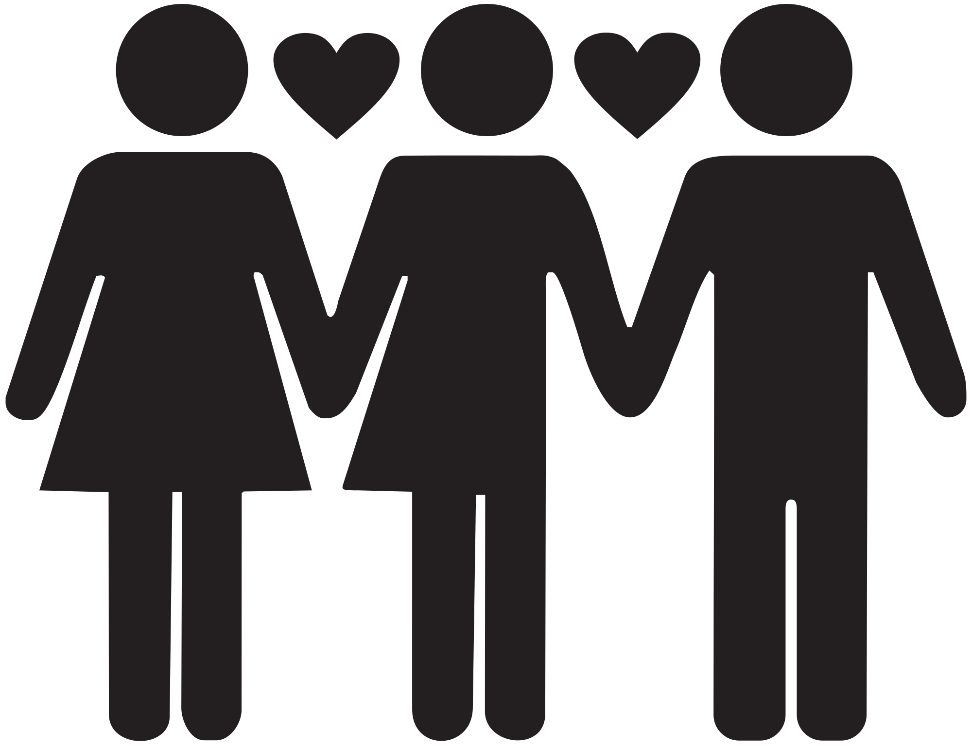 Figure 1: Polyamory - Multiple Lovers Without Jealousy